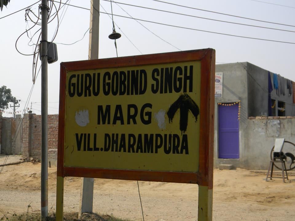 Guru Gobind Singh Marg,Dharmpura